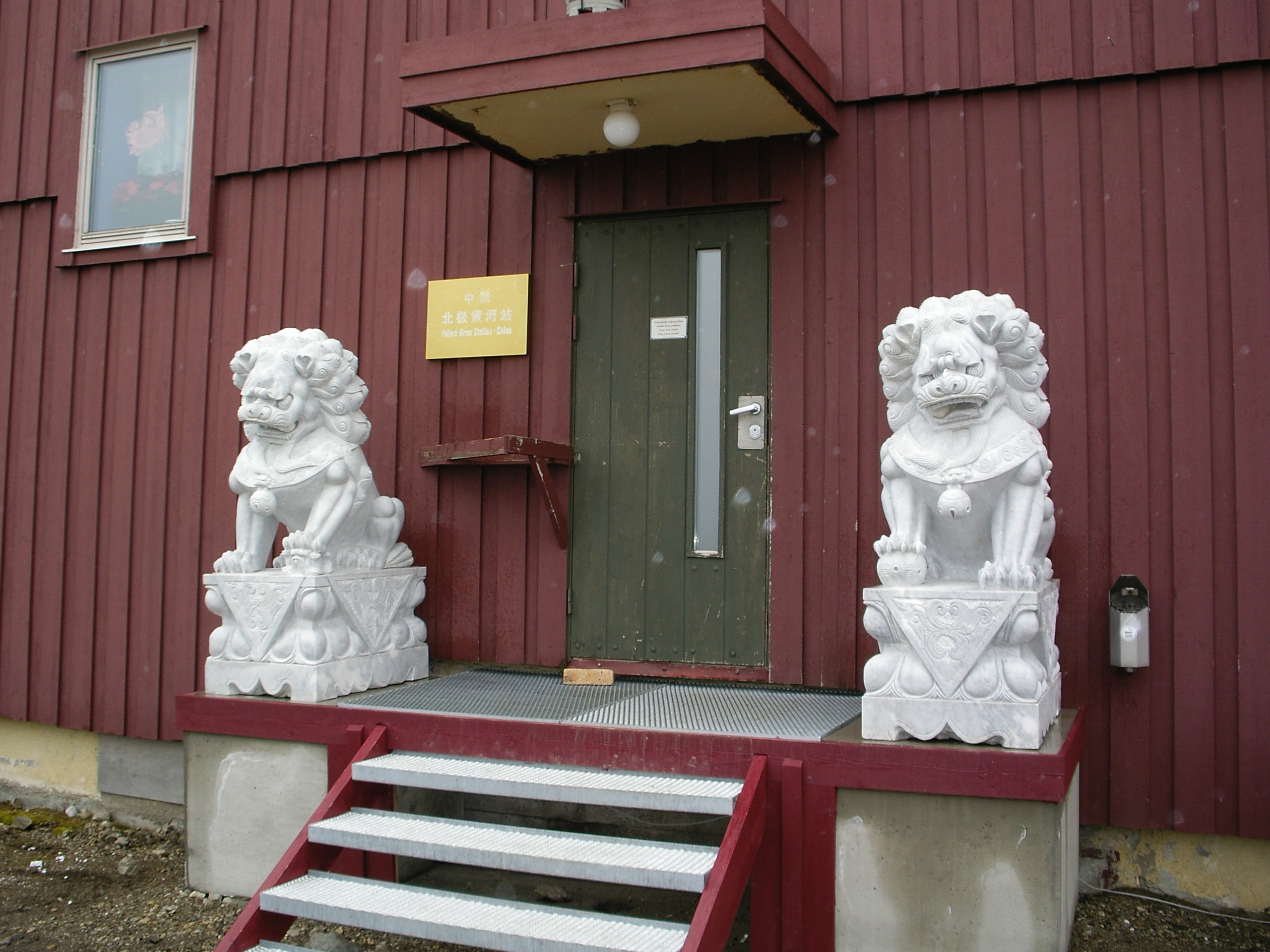 The entrance of the Chinese research station in Ny-Ålesund, Spitsbergen/Svalbard